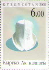 Stamp of Kyrgyzstan